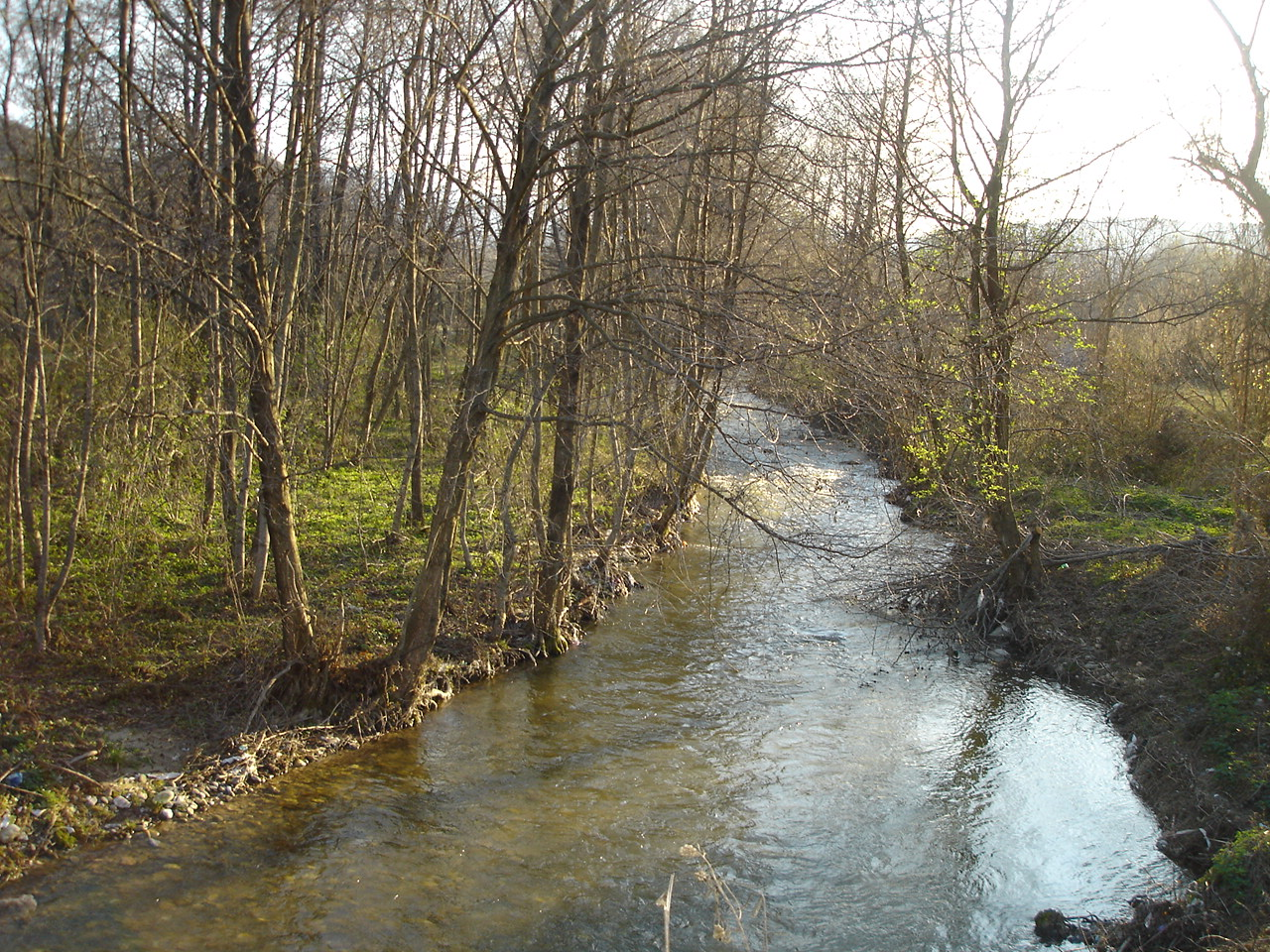 Markova River near village of Varvara, Macedonia